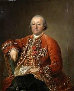 Philipp Karl von Hoheneck (1735-1808) Mainzer Domherr und Geheimrat, letzter männlicher Spross seines Geschlechtes